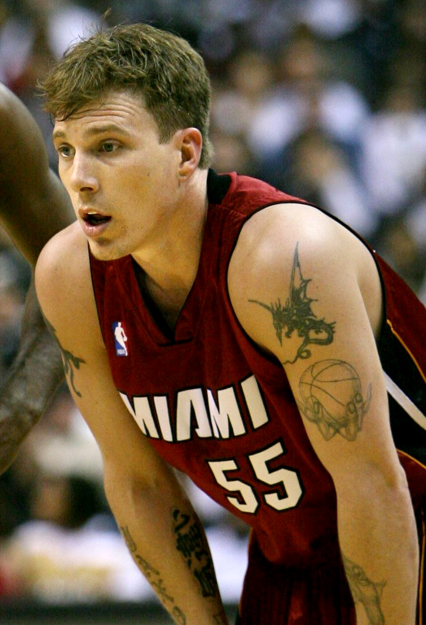 Jason Williams playing with the Miami Heat